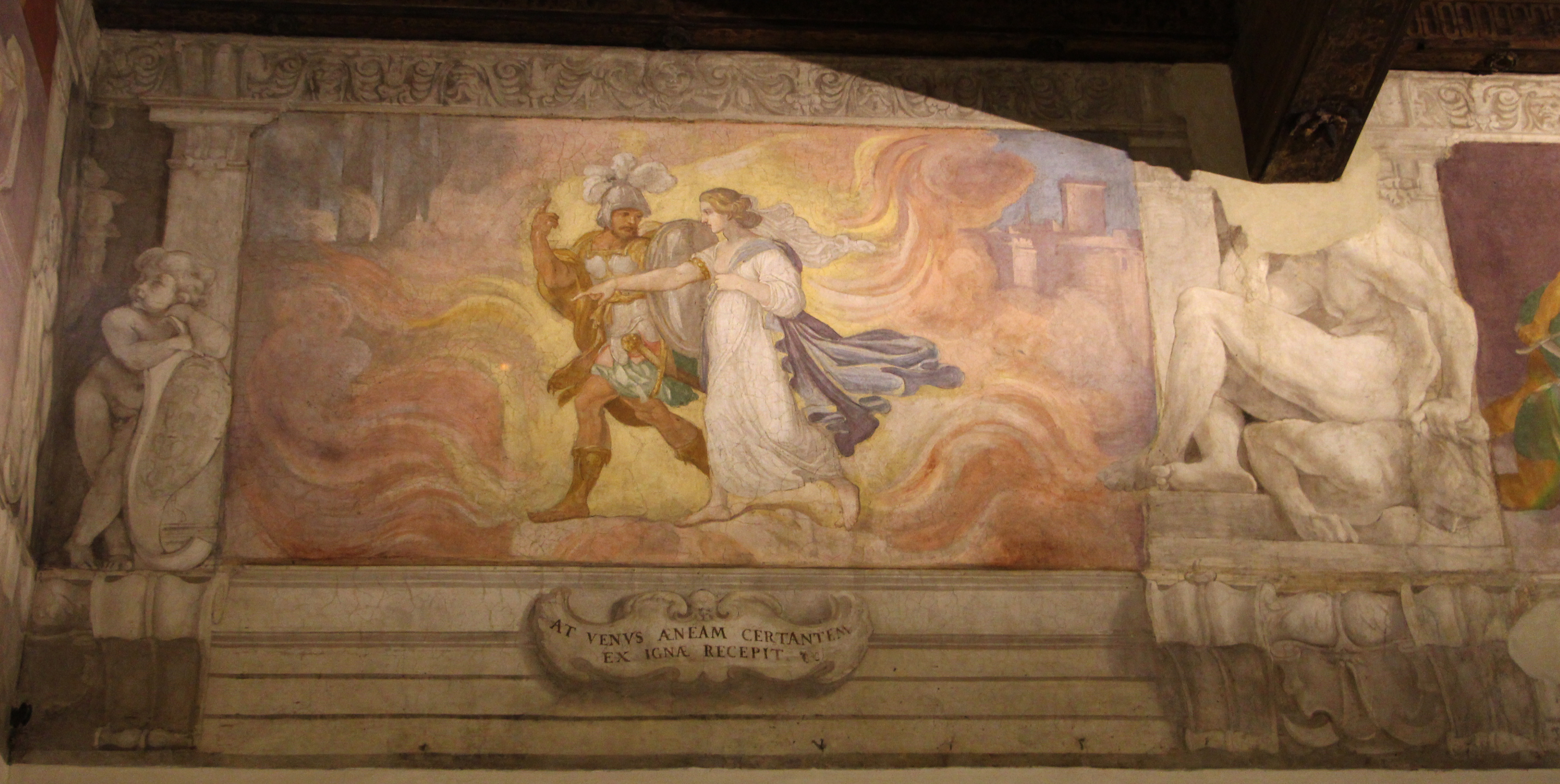 Frieze of Aeneas by the Carracci family